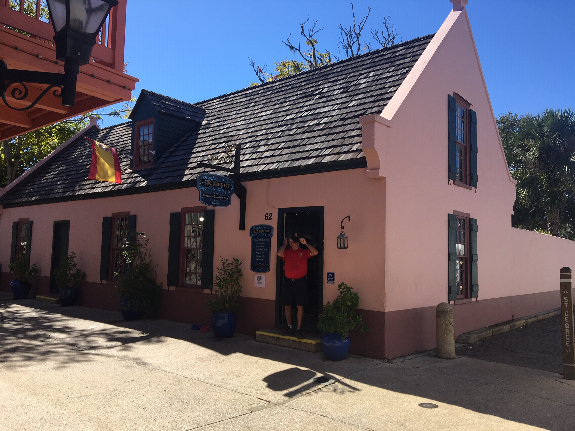 Benet Store building on the corner of St. George Street and Cuna Street in St. Augustine, Florida